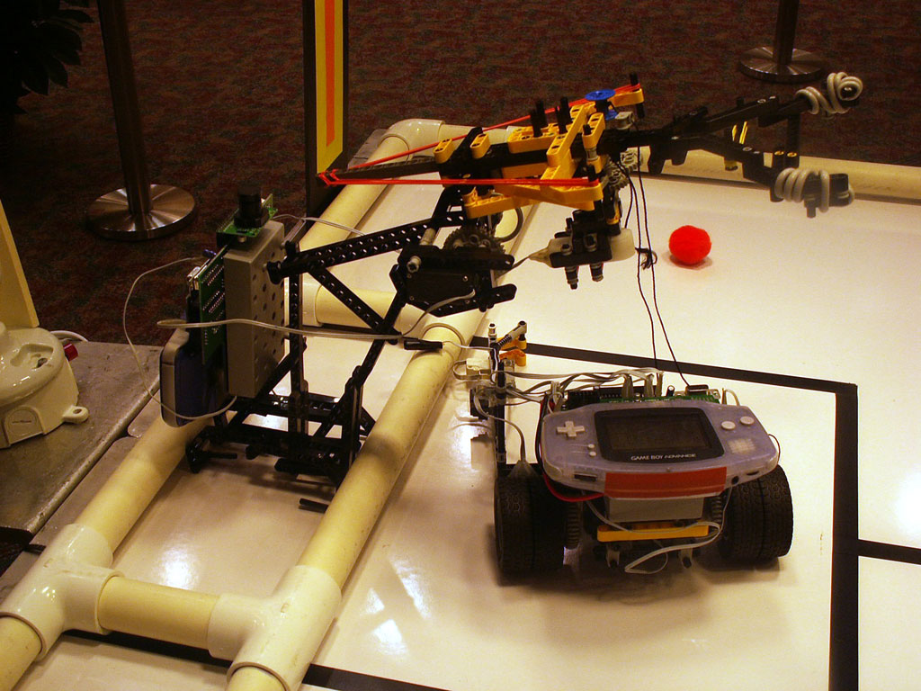 I took this picture of the Preuss School's Botball team while competing in Norman.